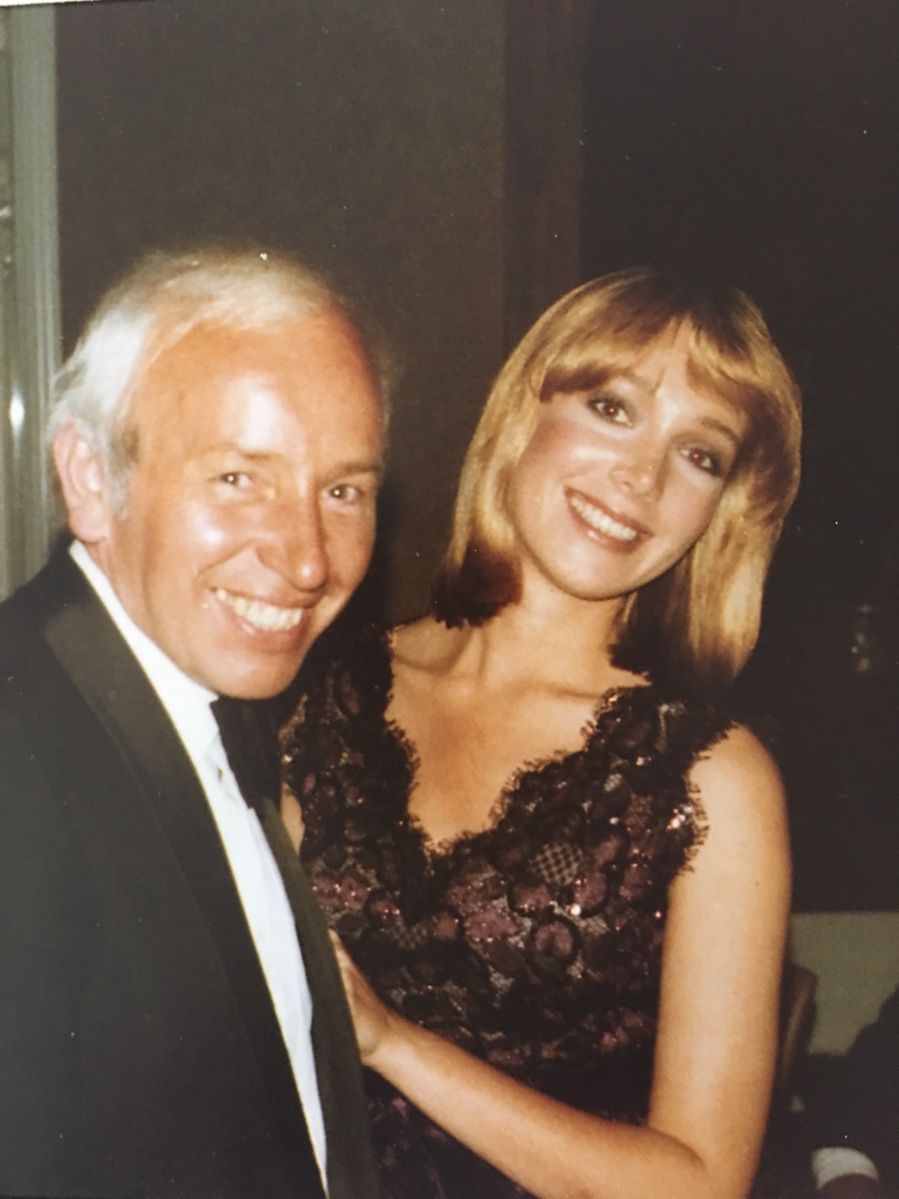 John Surtees and his second wife Janis Sheara.